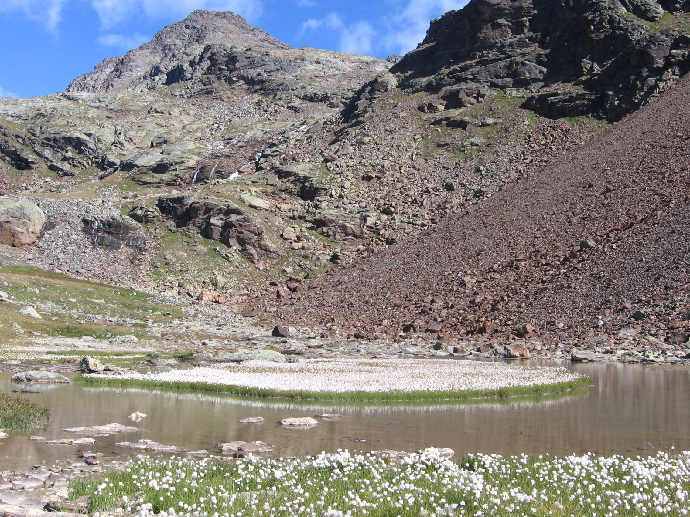 one of the Sternai lakes in den Ortler Alps in Saènt valley (upper Rabbi valley)